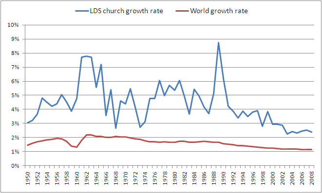 The growth of the Church of Jesus Christ of Latter-day Saints (LDS Church) compared to the growth of the world's population from 1950 to 2008.